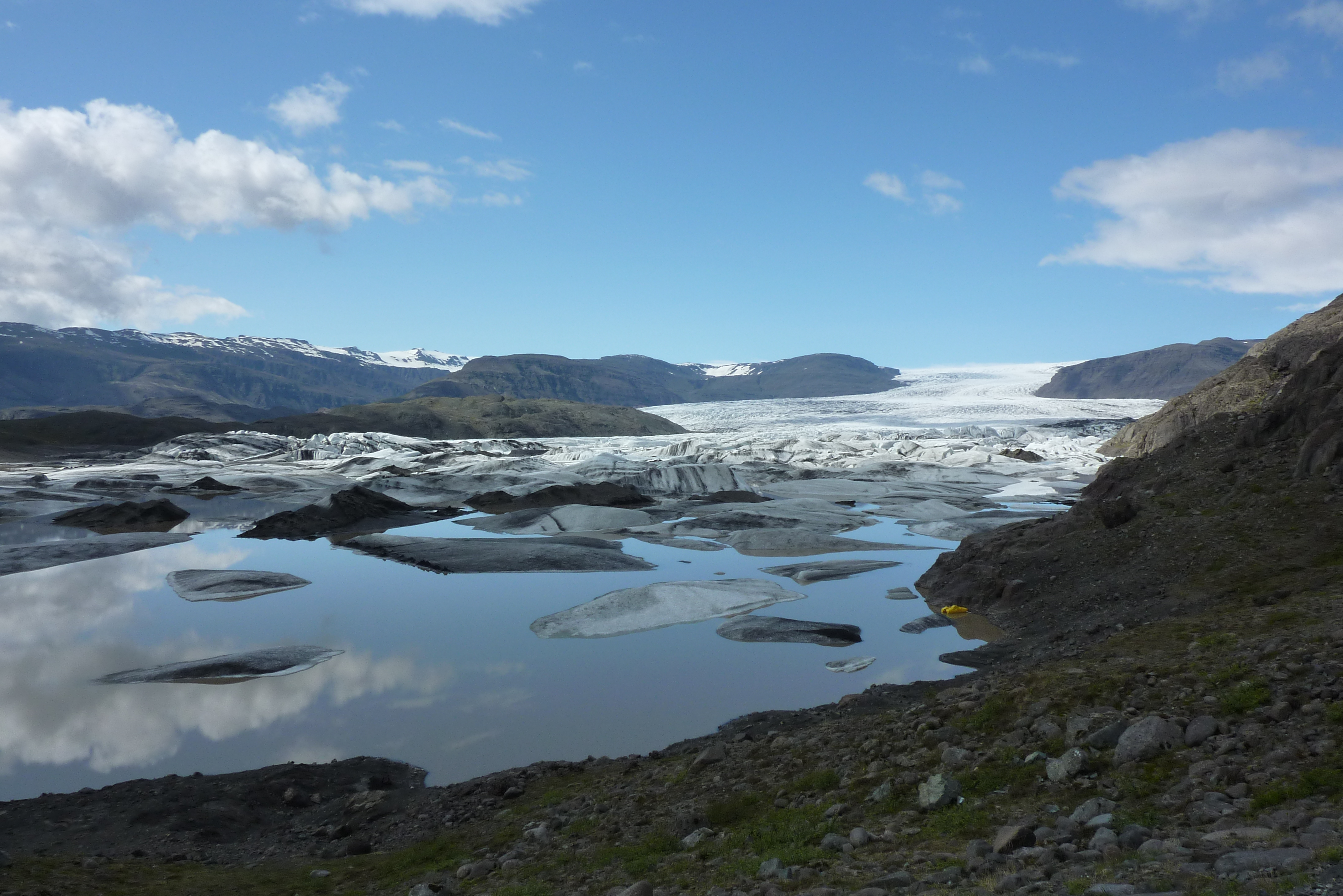 View towards Hoffellsjökull glacier.